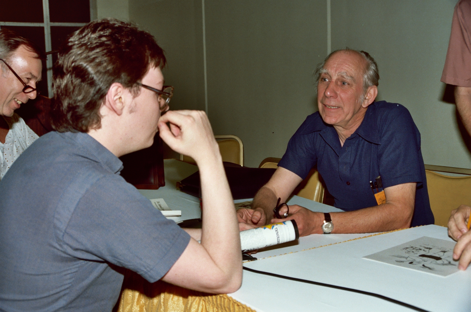 1982 San Diego Comic-Con International. Scanned from the original 35MM film negative. NOTE: Permission granted to copy, publish, broadcast or post any of my photos, but please credit "photo by Alan Light" if you can. Thanks.